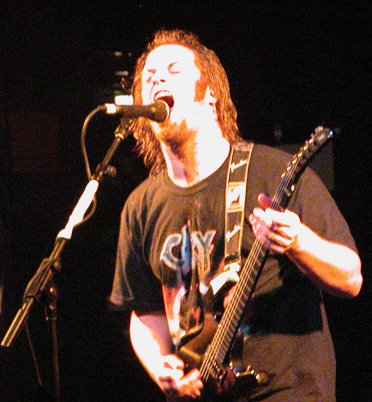 Deron Miller on stage with CKY at the Electric Ballroom, London.